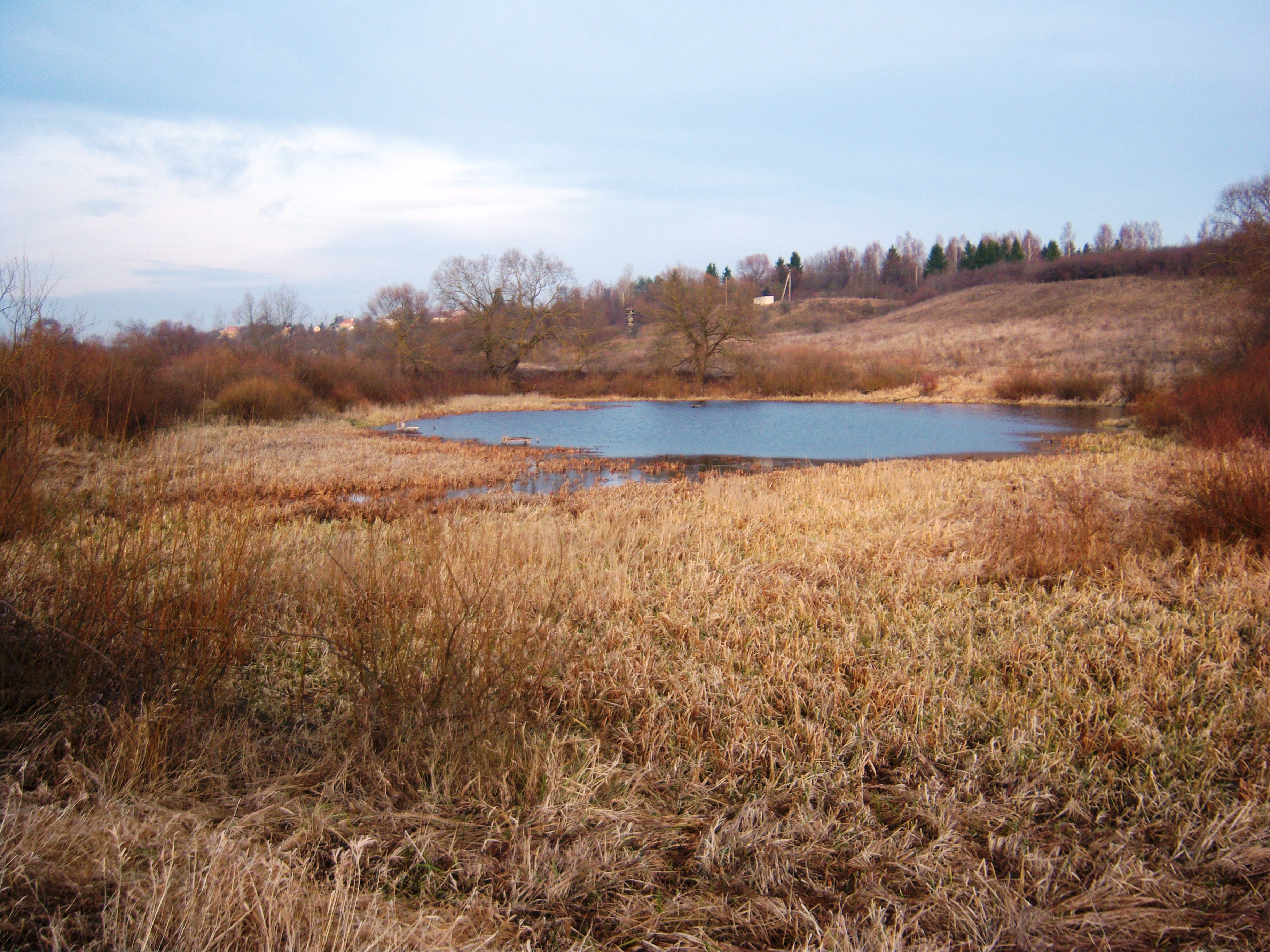 Bernakampė Lake, Kaunas District, Lithuania